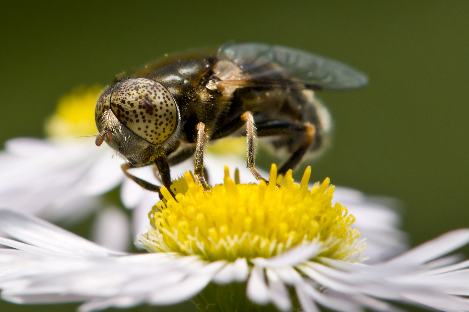 Eristalinus (Lathyropthalmus) aeneus